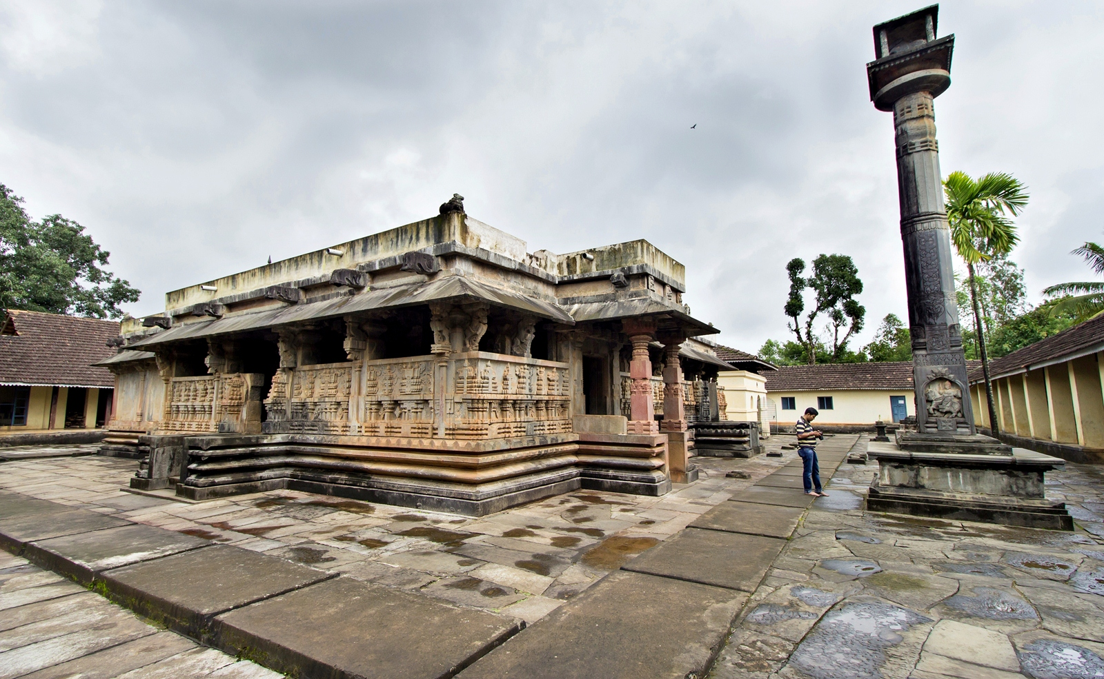 The wide and beautiful 16th century Rameshwara Temple at Keladi, one of the fascinating work from Nayaka Dynasty. Houses three shrines: Devi Paarvathi, Lord Rameshwara and Lord Veerabhadra. Fantastic wood works on the ceiling and the home to the mythological bird, GandaBedunda, the genesis of many royal symbols of Karnataka.